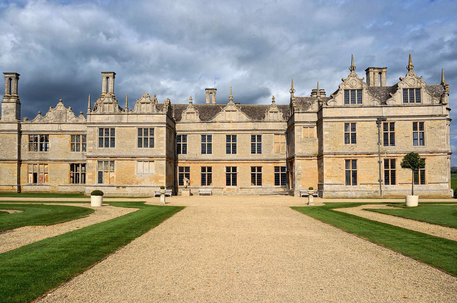 Kirby Hall, Northamptonshire. Ruins of Elizabethan House in the care of English Heritage